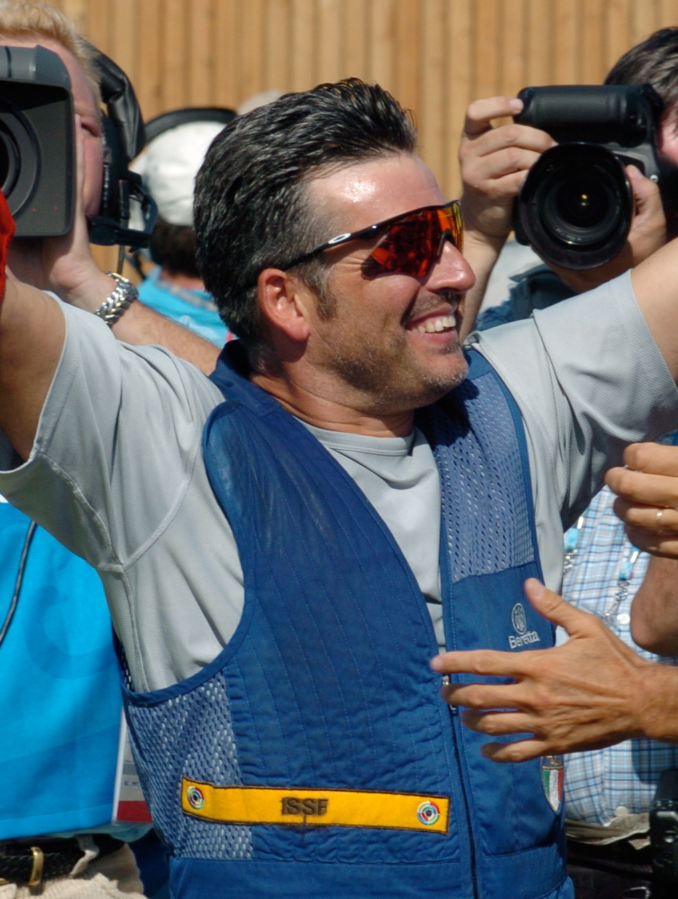 2004 Summer Olympics - Army World Class Athlete Program - FMWRC - U.S. Army - Official Image Archive - Athens Greece - XXVIII Olympiad